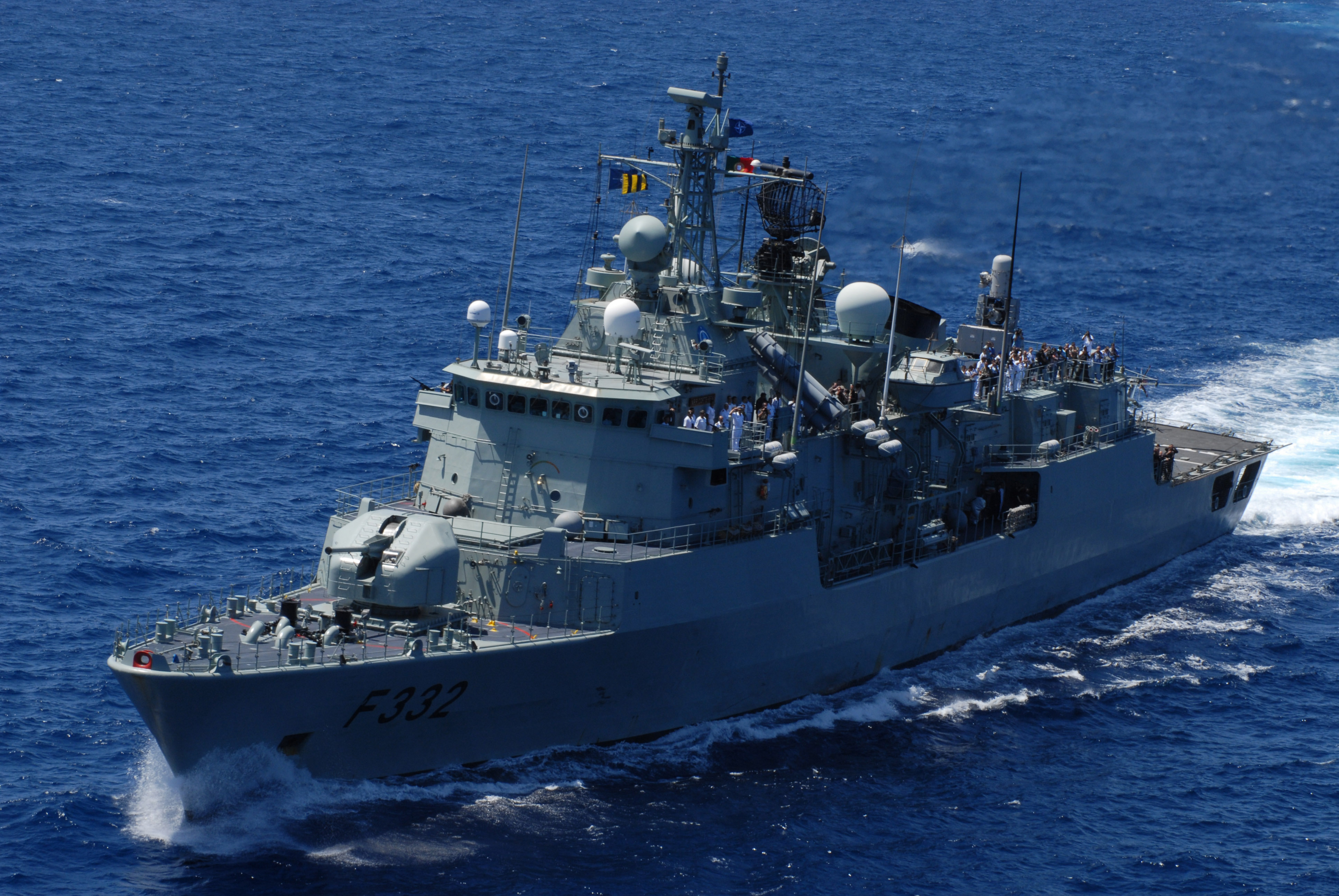 Portuguese ship NRP Corte Real (F 332) participates in a pass and review during the North Atlantic Council at Sea Day with Nimitz class aircraft carrier USS Dwight D. Eisenhower (CVN 69) July 13, 2009, in the Atlantic Ocean. The Eisenhower Carrier Strike Group is operating in the U.S. 6th Fleet area of responsibility after a regularly scheduled five-month deployment in the U.S. 5th Fleet area of operations.